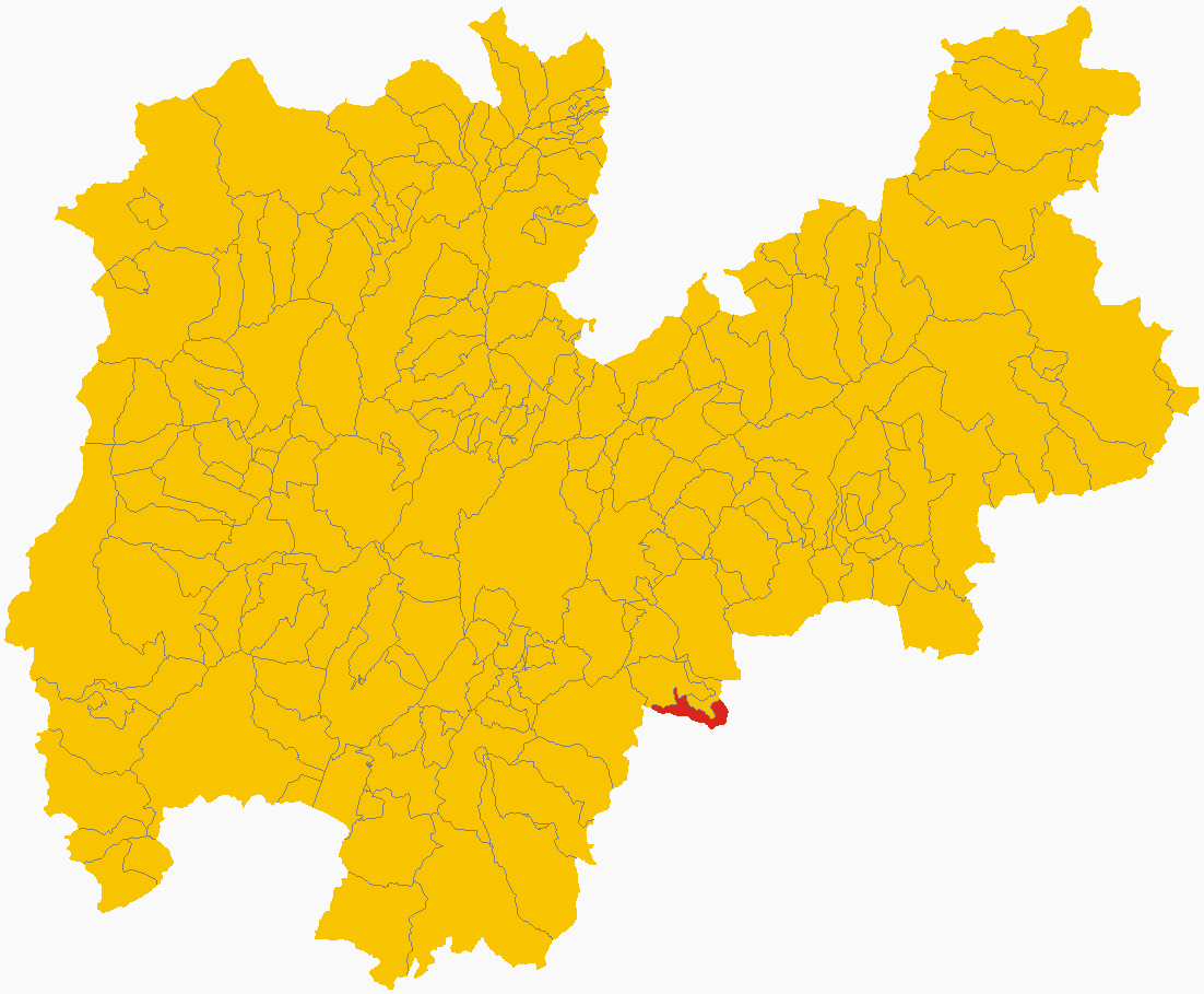 Hypothetical map of the comune of Pedemonte in the autonomous province of Trento, with also the two others comuni of Valvestino and Magasa, currently in the province of Brescia.